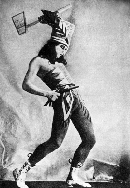 Serge Lifar, dancing Karol Szymanowski's Harnasie ballet 1936